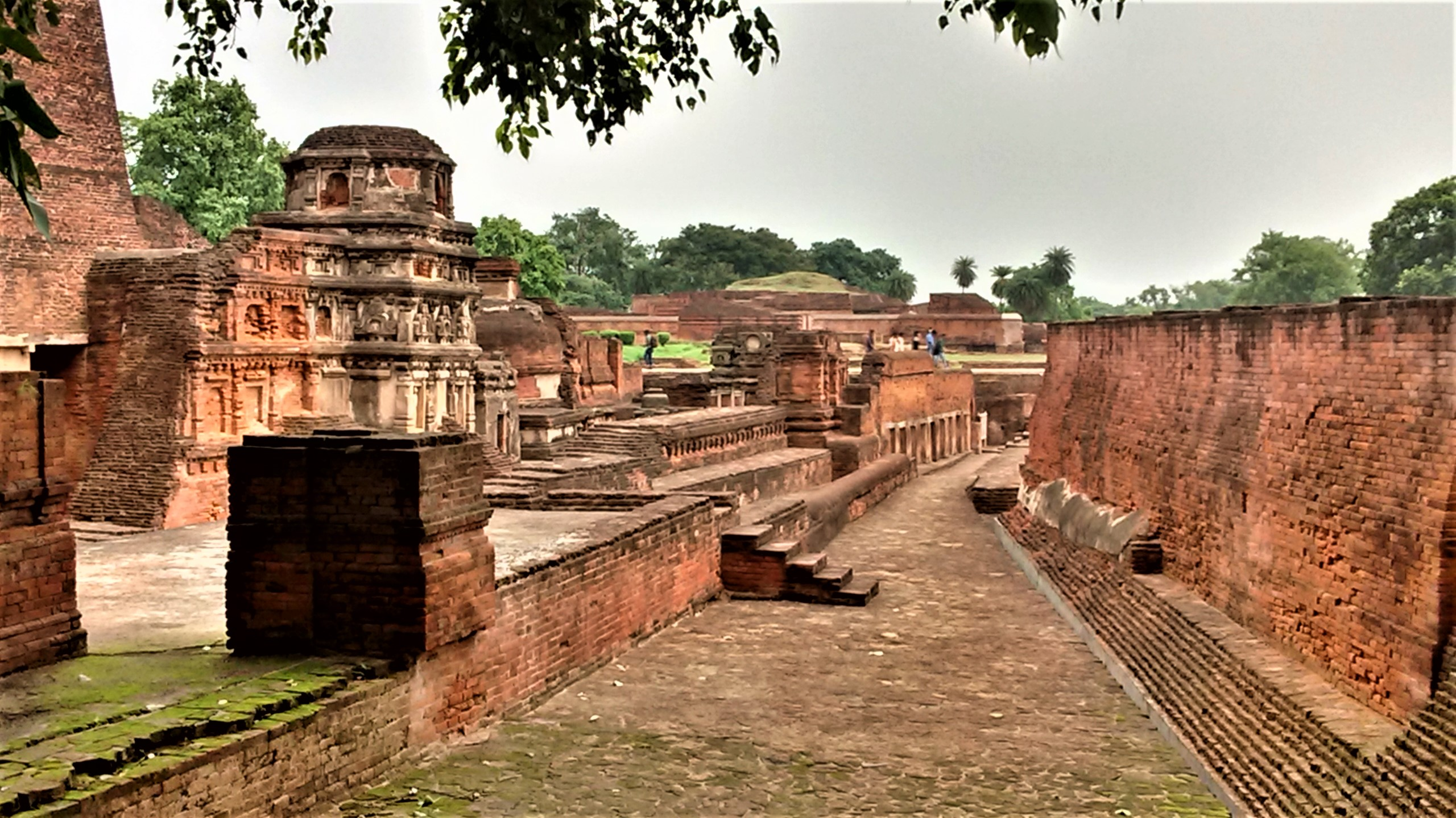 This snap is taken during my visit to Nalanda. The picture says all about